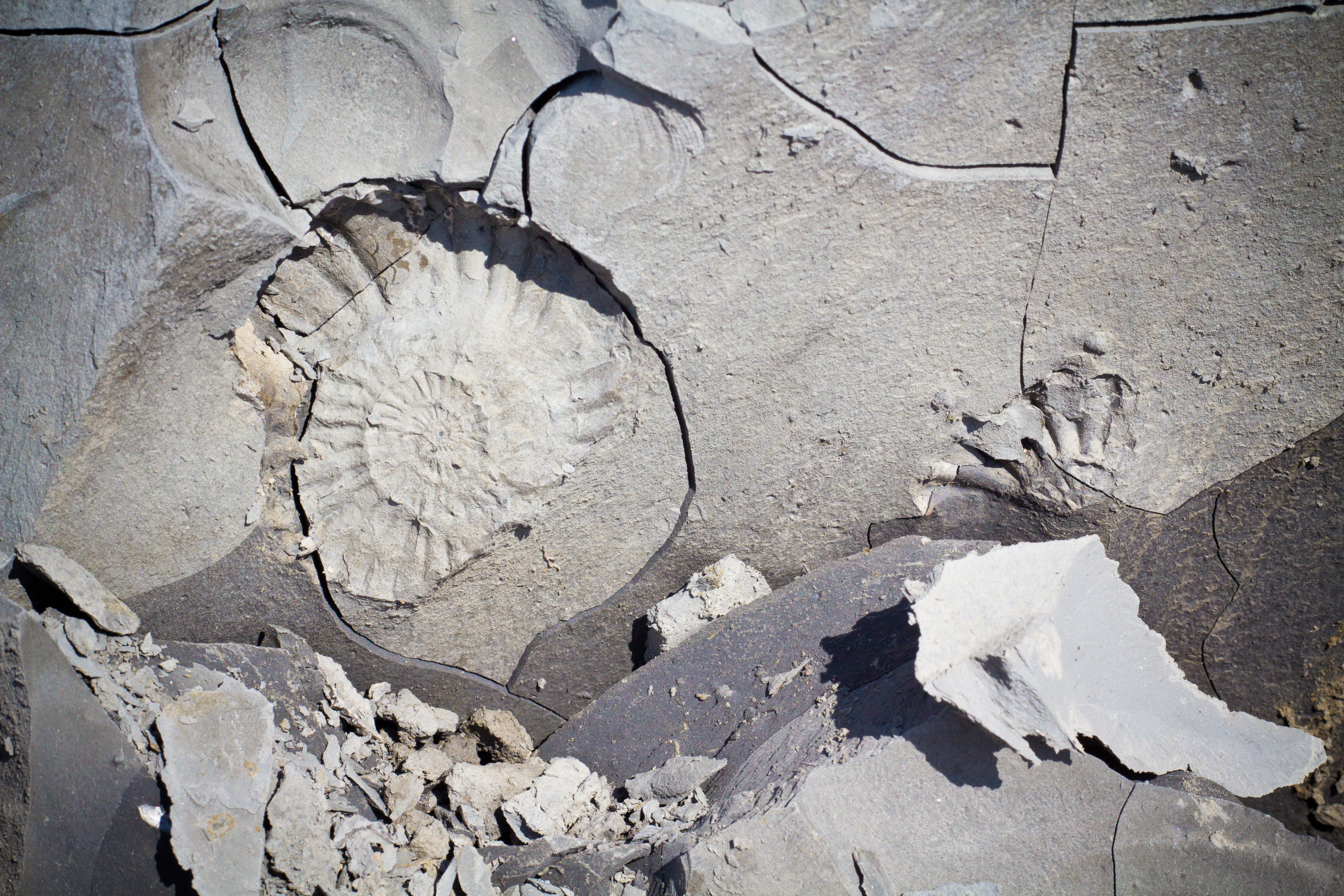 Ammonite in the rock at Jurassic Coast, Golden Cap, Dorset